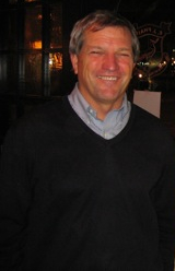 Then-California State Assemblyman (now state Senator), Mark DeSaulnier in 2007. This file has been extracted from another file: Mark DeSaulnier 2009.jpg